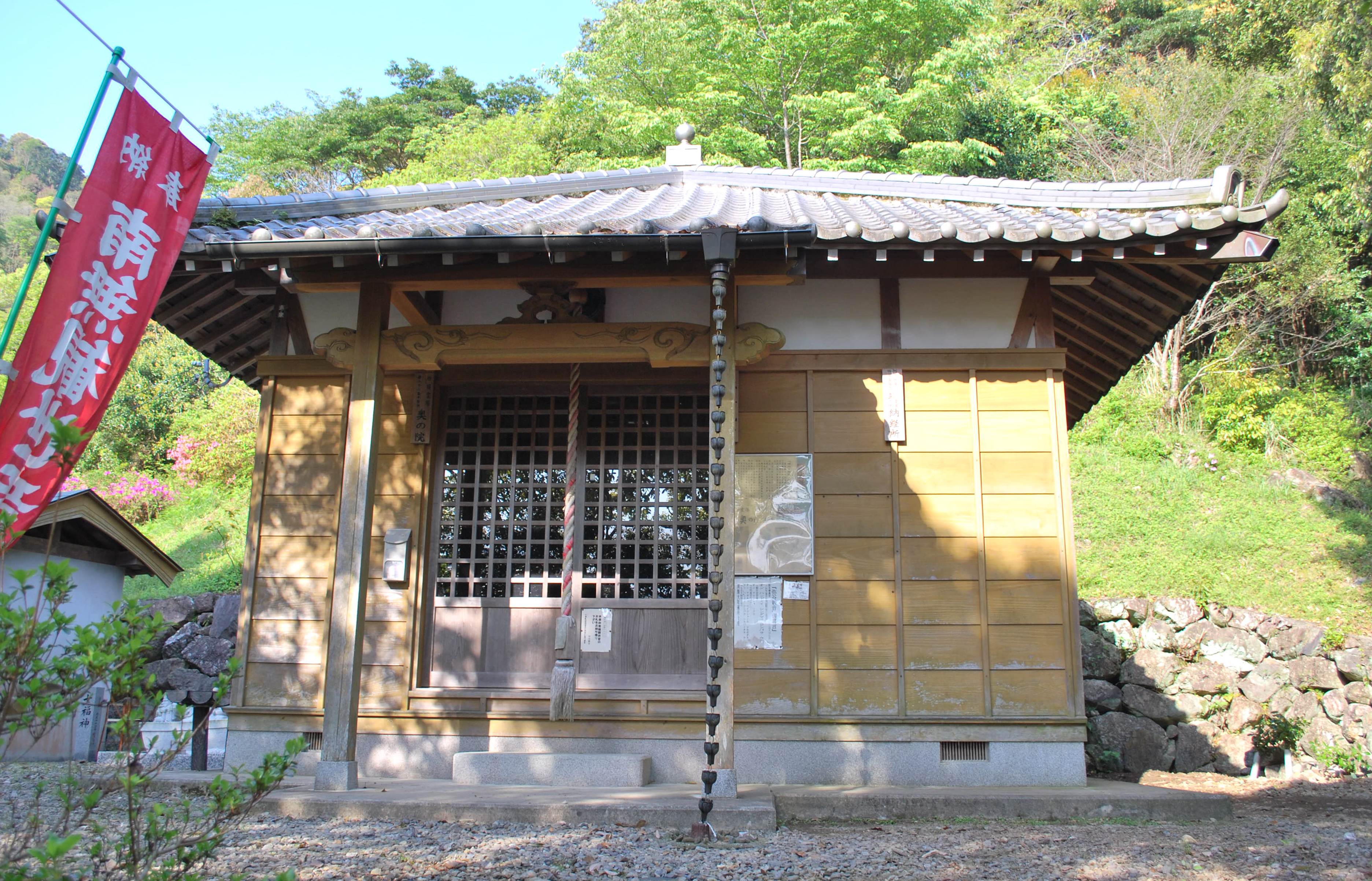 Iyadani-kannondō